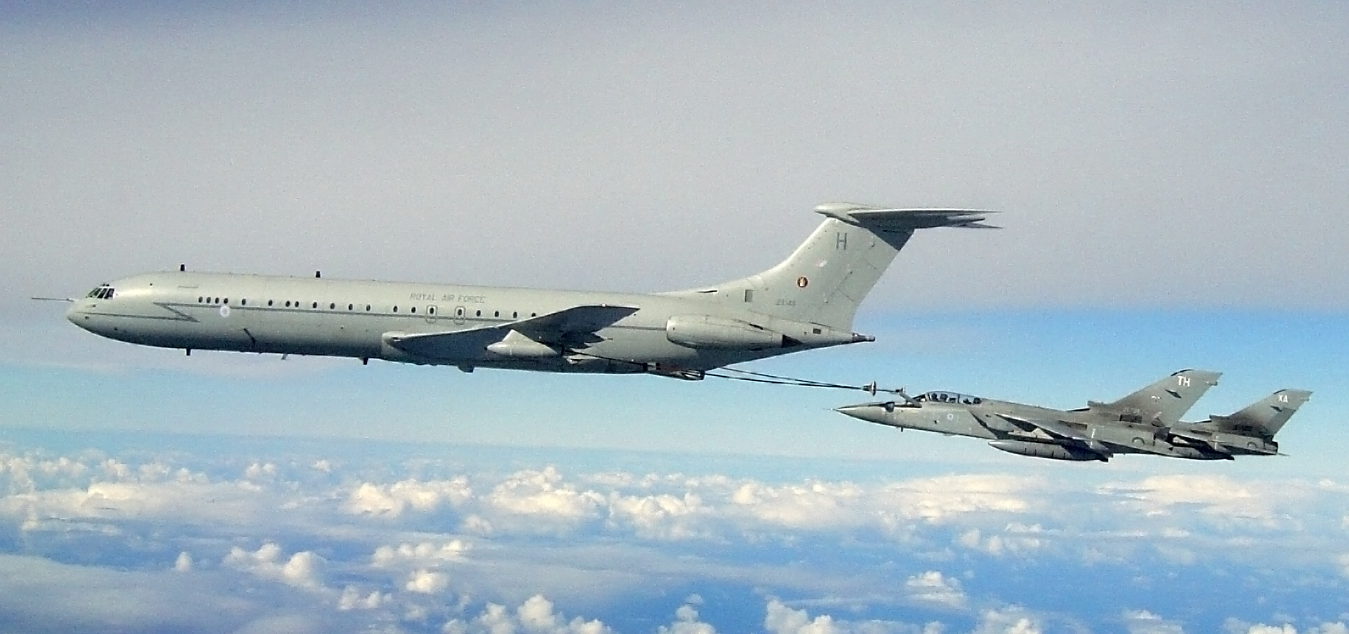 Vickers VC-10 in aerial refuelling exercise